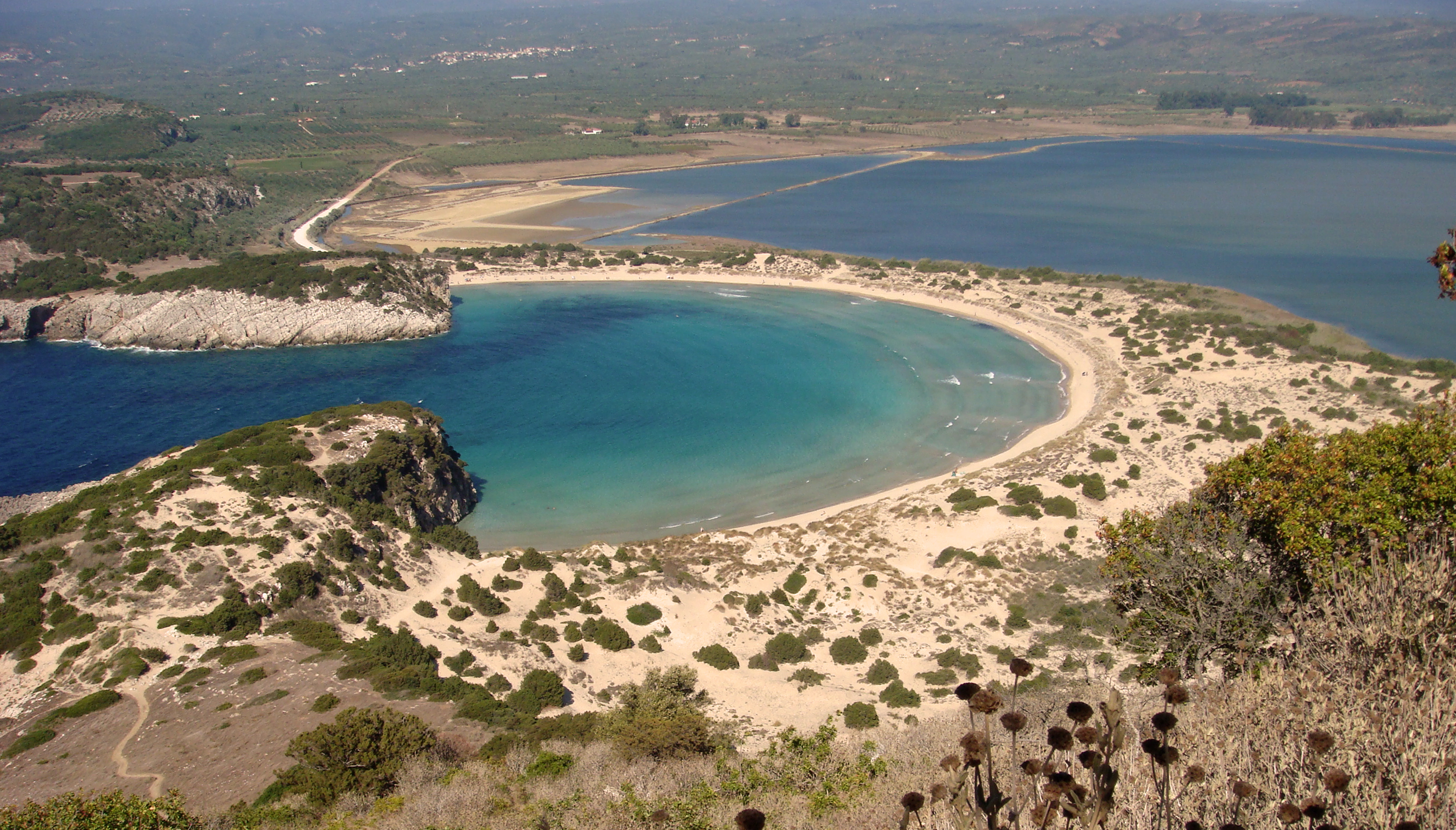 Voidokilia beach viewed from Nestor's Cave, Messinia, Peloponnese, Greece.